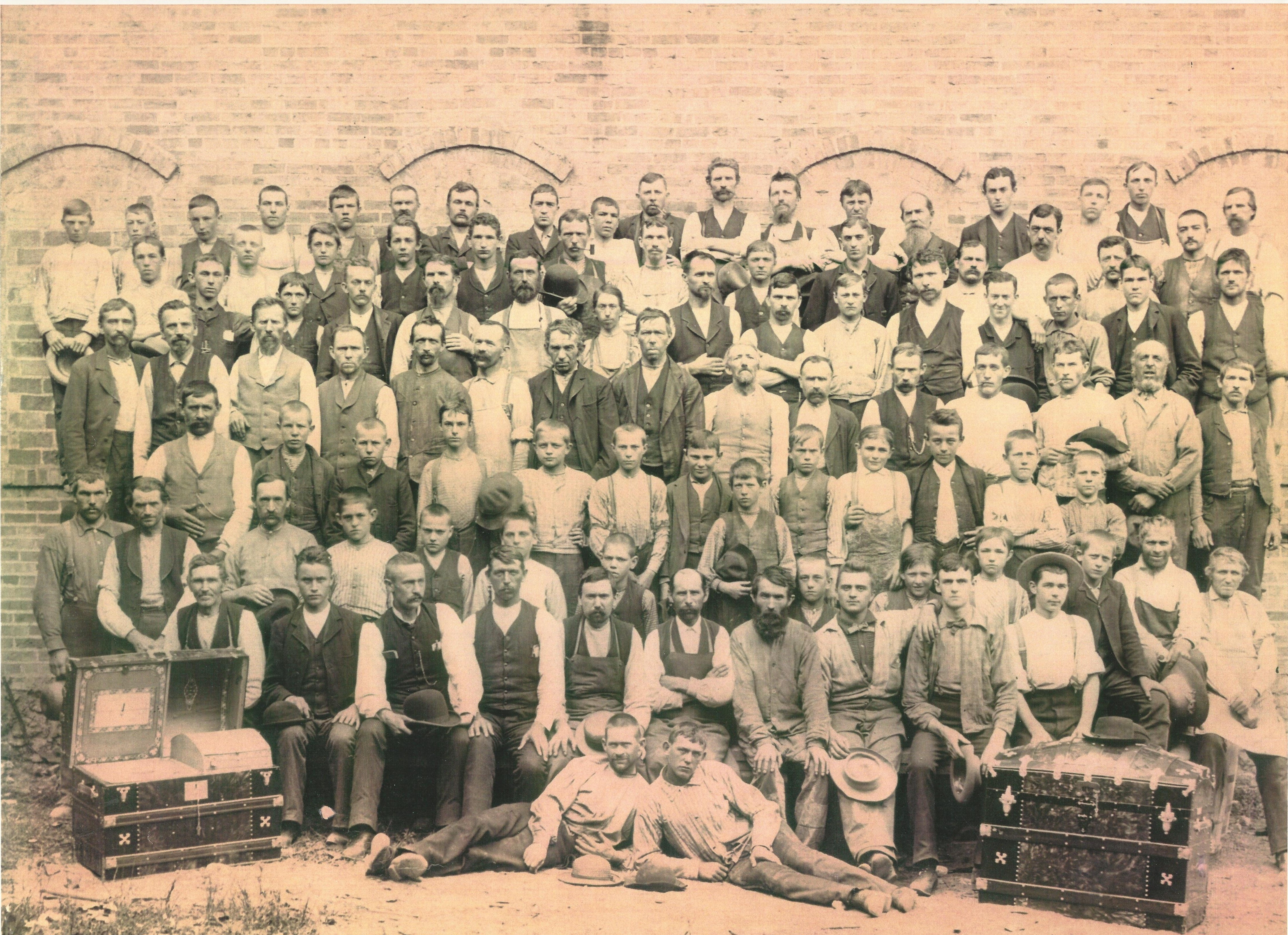 Caption: Photo courtesy Mrs. Joseph Robotka, Franksville. SECOR EMPLOYES--The trunk samples in the front of this group display the workmanship of the employes at the M. M. Secor Trunk factory. The picture was taken about 1885. Many young boys were among the workers. Special nailhead trimming and compartments were features of the trunks made by Secor, who was one of Racine's most colorful mayors. The building, located on Lake Ave. at Fourth St., is now being used as a garage.